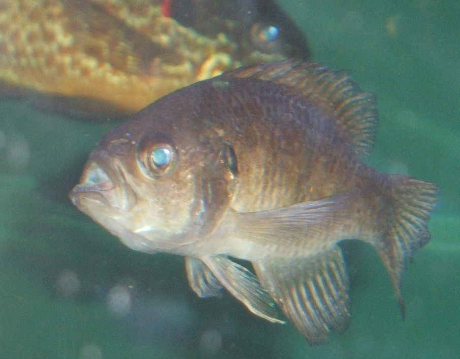 Banded sunfish (Enneacanthus obesus). Taken at the New England Aquarium (Boston, MA, December 2006. Copyright © 2006 Steven G. Johnson and donated to Wikipedia under GFDL and CC-by-SA.